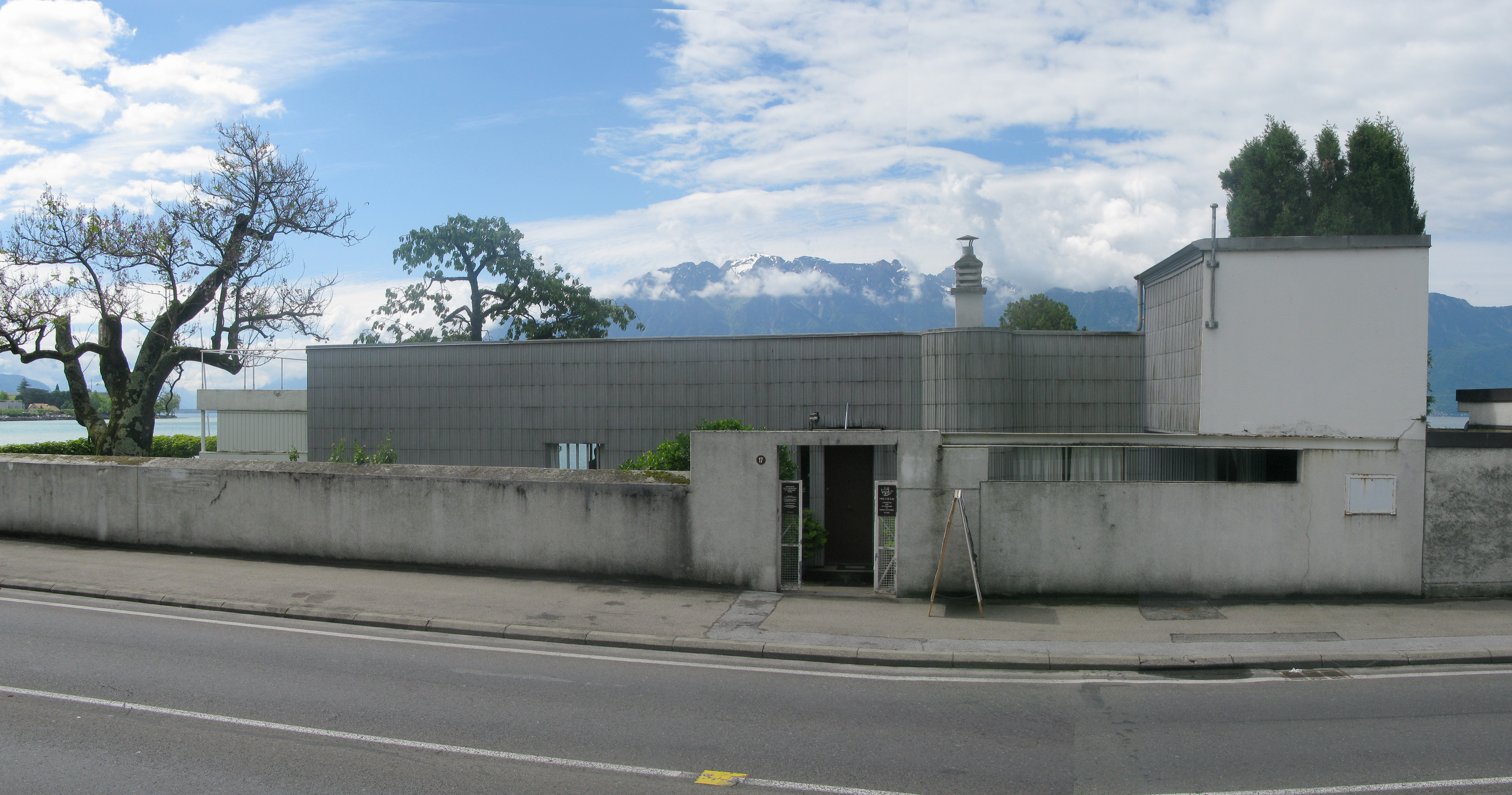 Villa Le Lac, Corseaux Le Corbusier, architecte